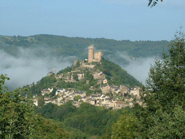 View of Najac in the morning